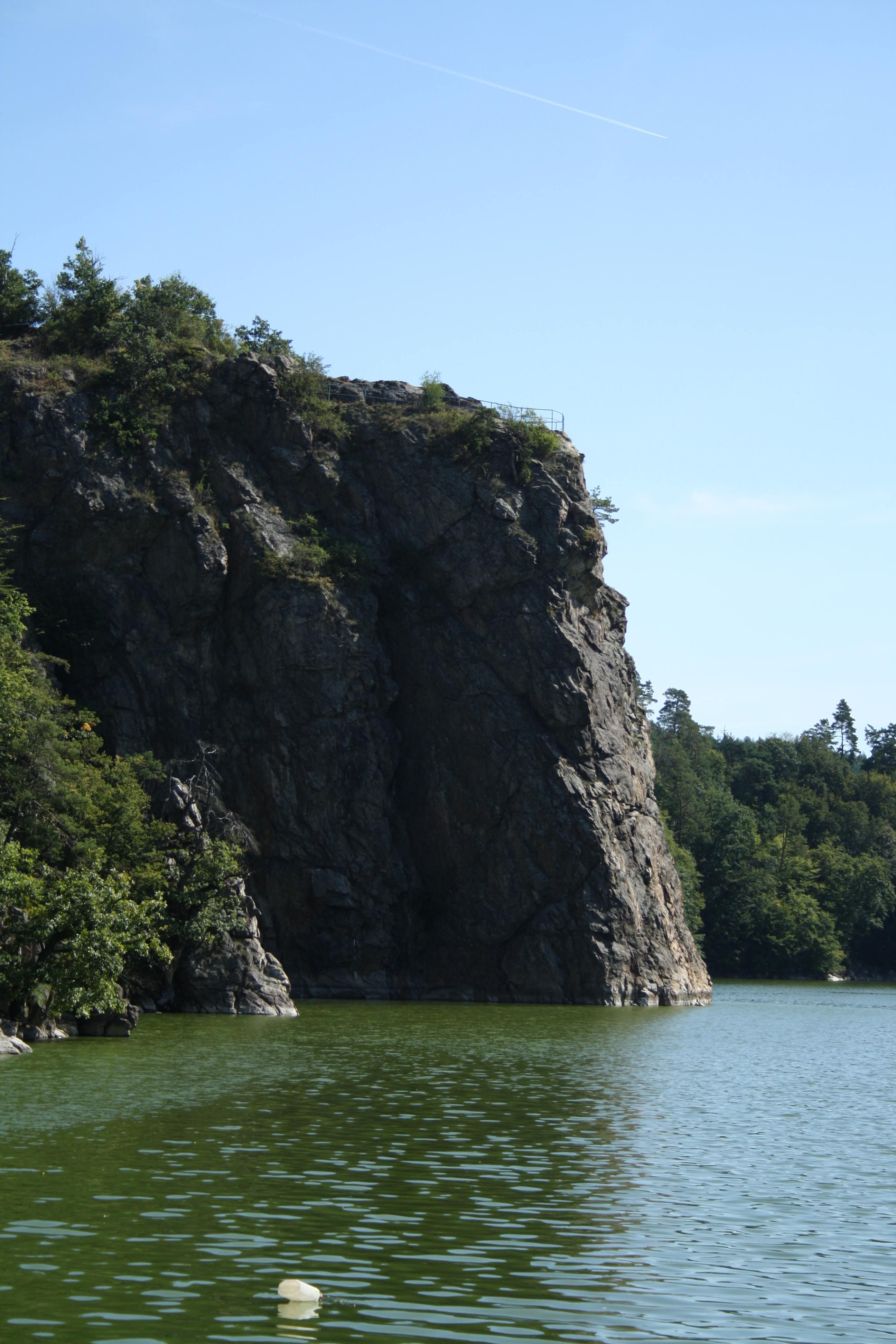 Wilson's rock at Dalešice Reservoir.